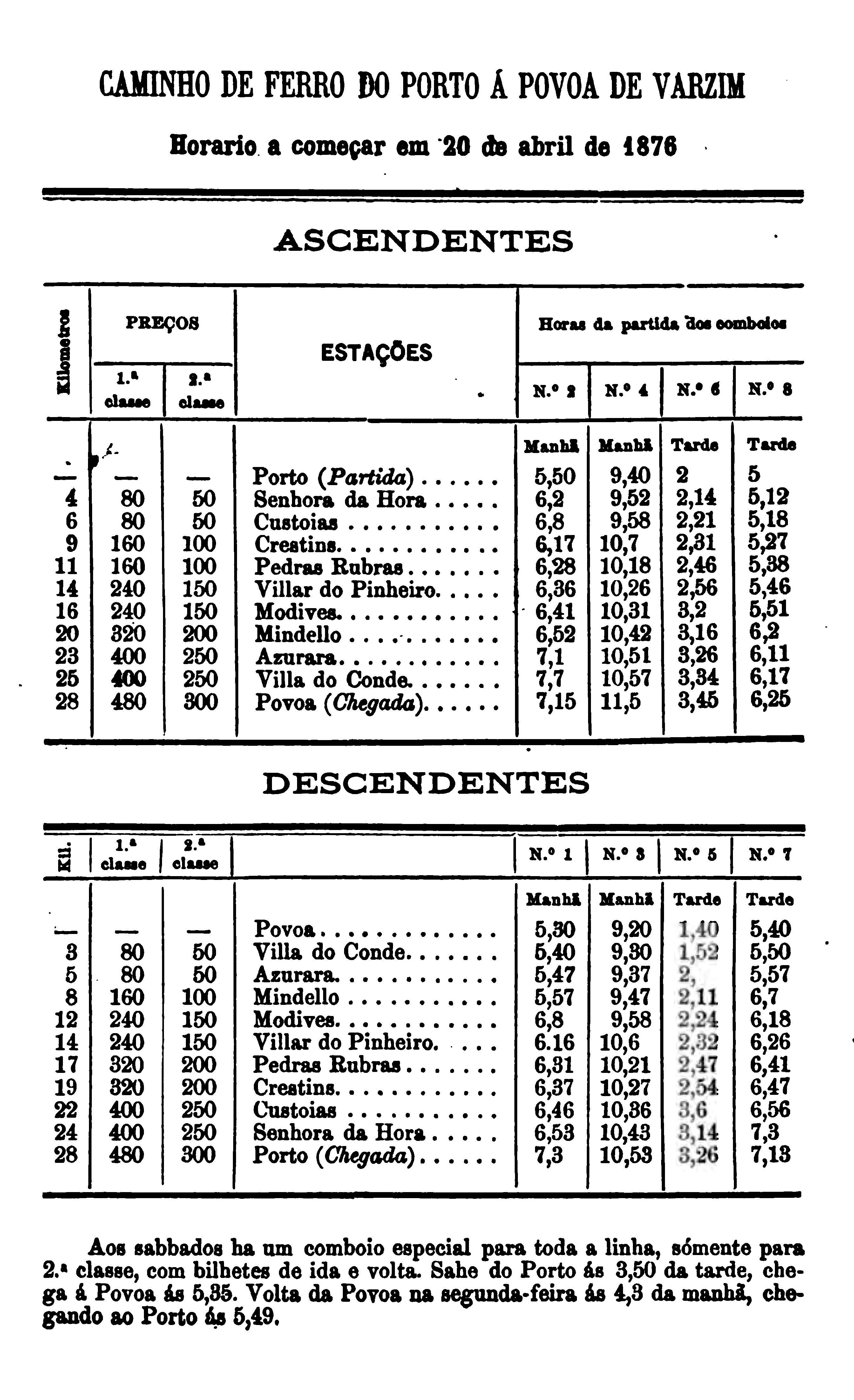 Timetable of the trains from Porto (Boavista) to Póvoa de Varzim, in Portugal. This line was built by the Companhia do Caminho de Ferro do Porto à Póvoa (Porto to Póvoa Railway Company), who later had its name changed when the line reached Famalicão. This image was originally published in the 1876 book "As Praias de Portugal" by author Ramalho Ortigão, scanned by Google from the library of Harvard University, and available in the website.